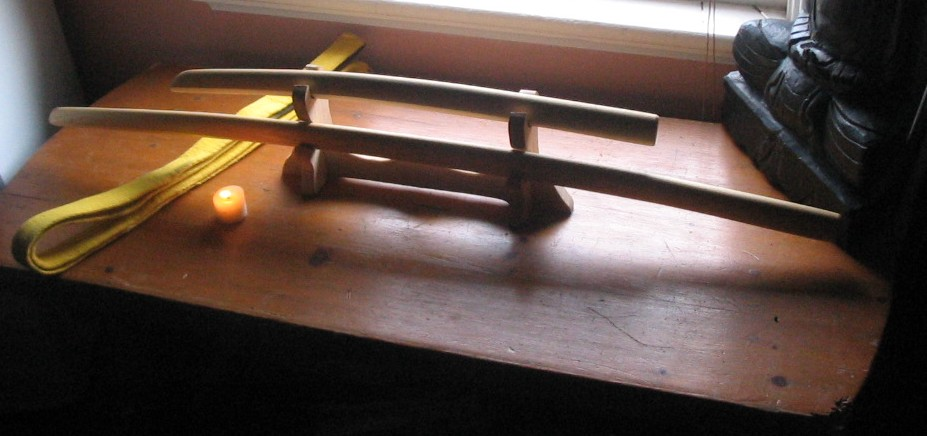 A daisho set of hickory bokuto (bokken).